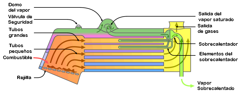 Same file as before cropped top and bottom to allow file to be better integrated into text.